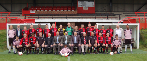 Andover F.C.'s squad photograph for the 2009-10 season